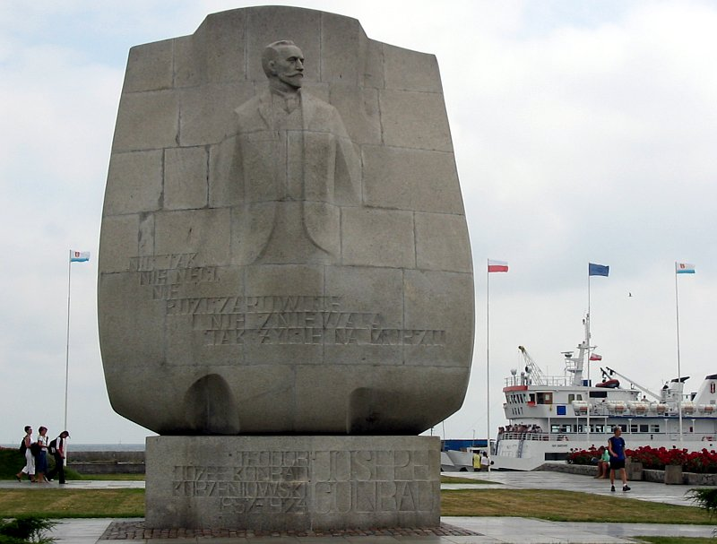 Anchor-shaped Conrad monument in Gdynia, on Poland's Baltic Seacoast